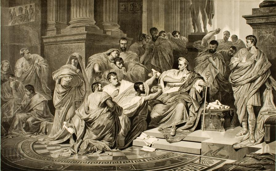 Caesar's death